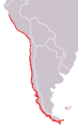 In red colour: range of marine otter (Lontra felina).